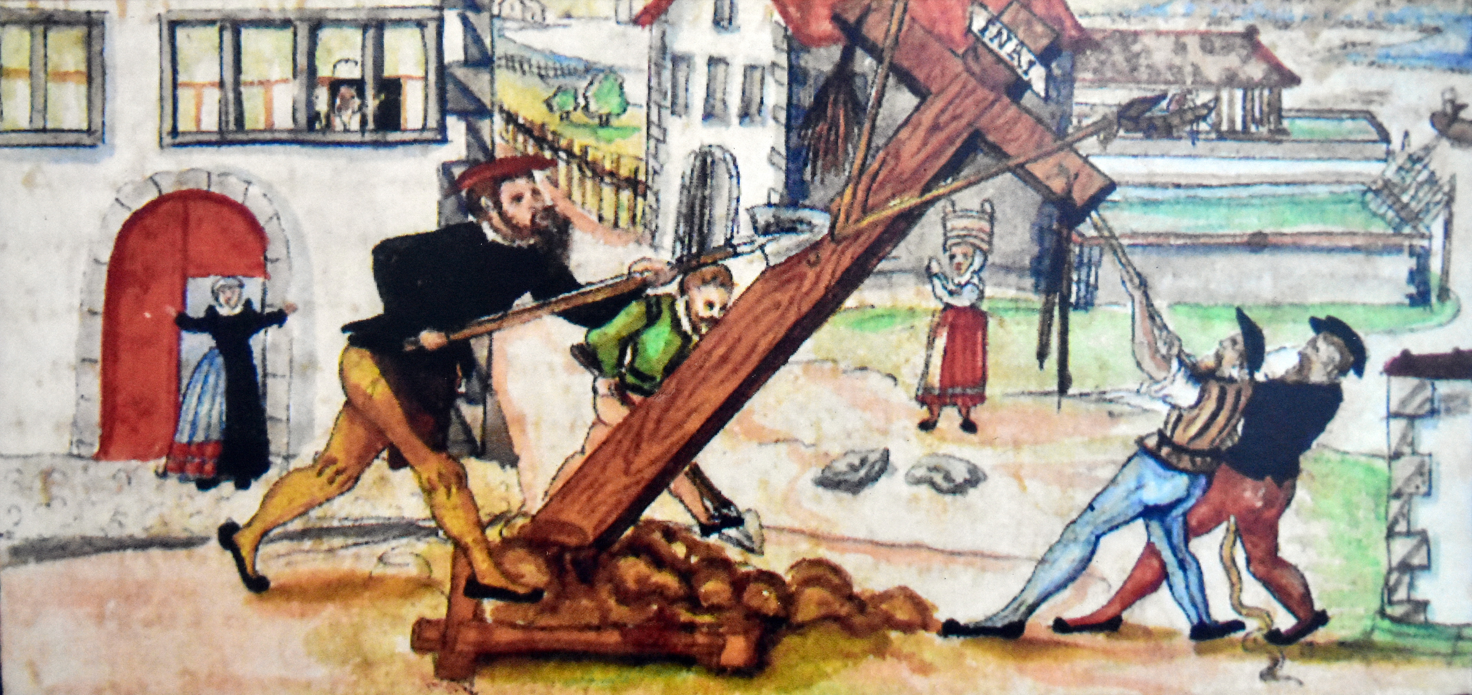 Theologisches Seminar (Carolinum) University of Zurich, respectively former Höhere Töchterschule college in Zürich (Switzerland) respectively cloister of Grossmünster : Reformation in Zürich, in Stadelhofen wird das grosse Kreuz umgelegt. In: Illustrierte Reformations-Chronik H. Bullingers von 1605.